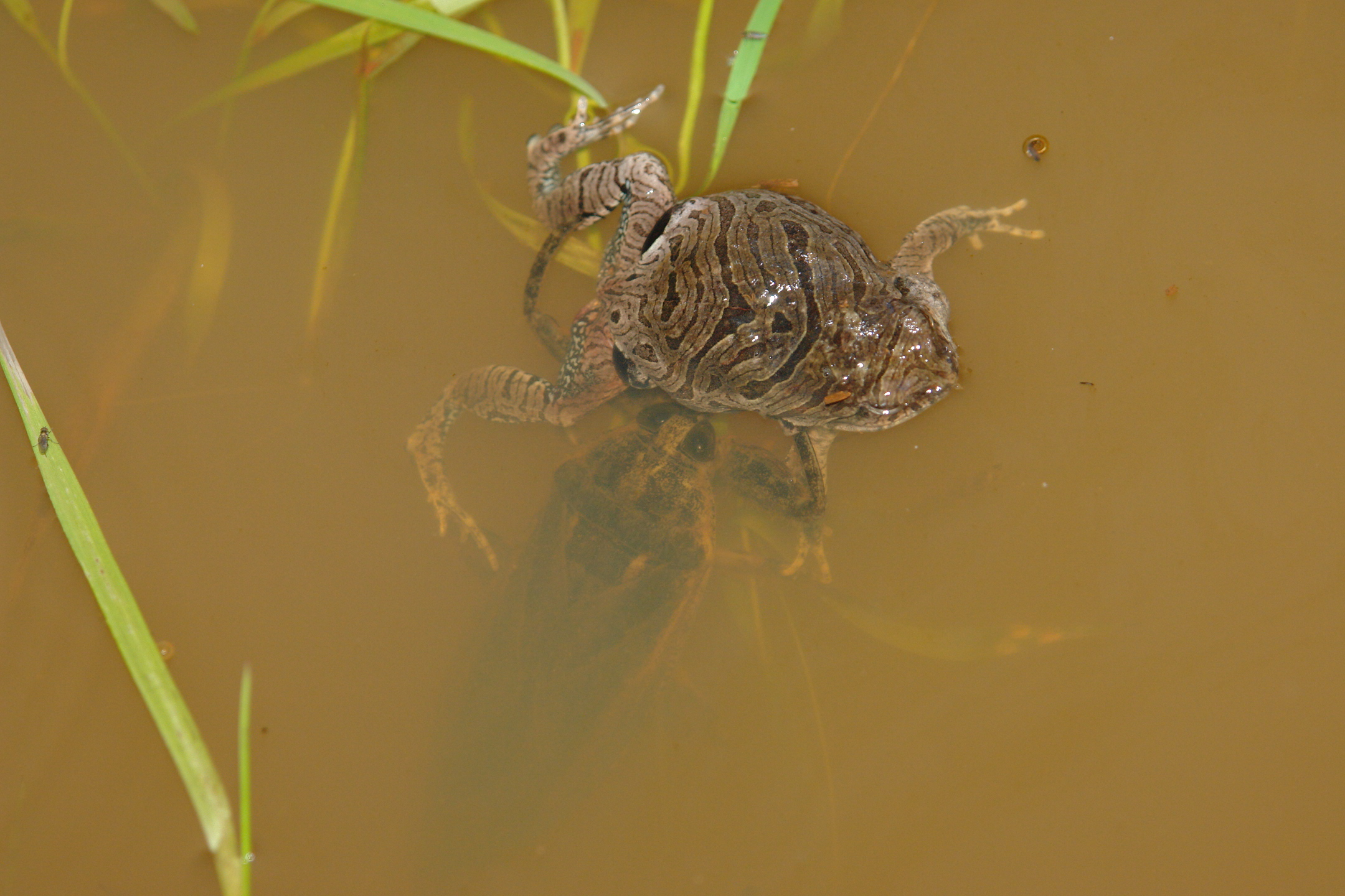 A water bug (Lethocerus sp.) preying a frog (Physalaemus nattereri)